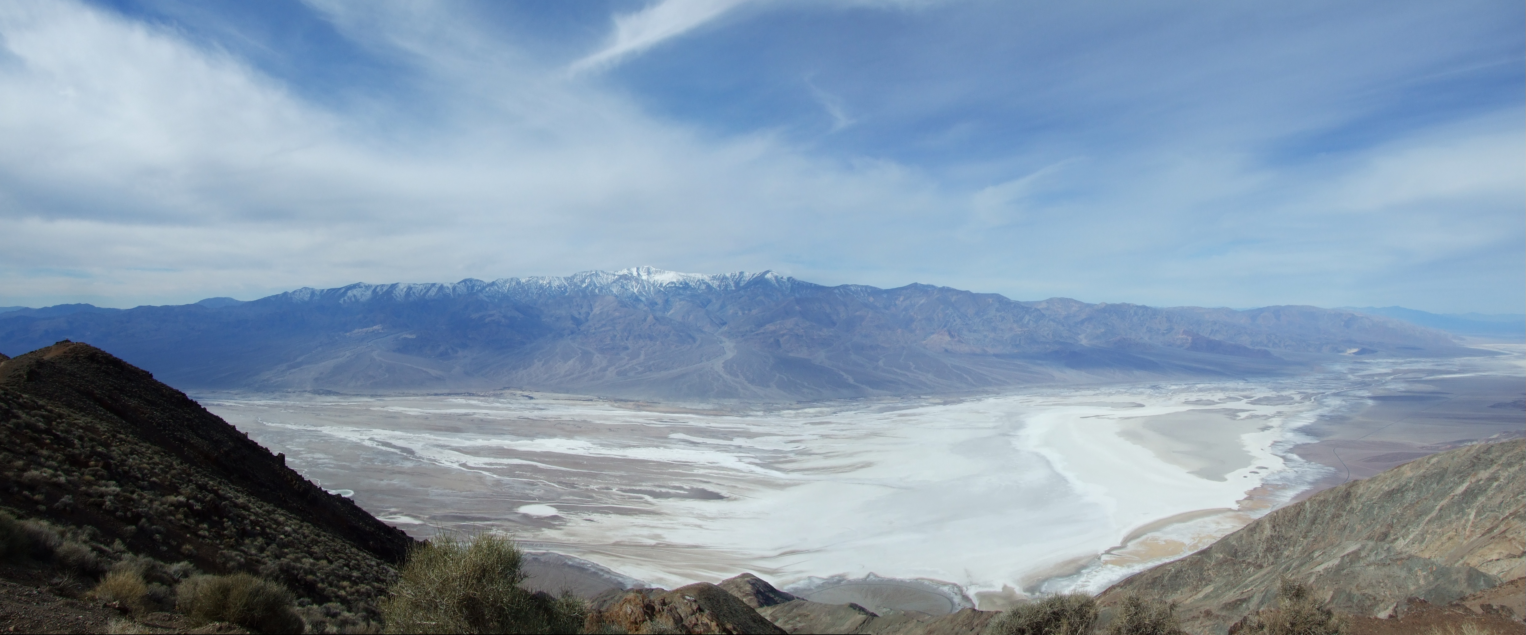 View from Dante's Peak in Death Valley National Park. Stitch of two photos